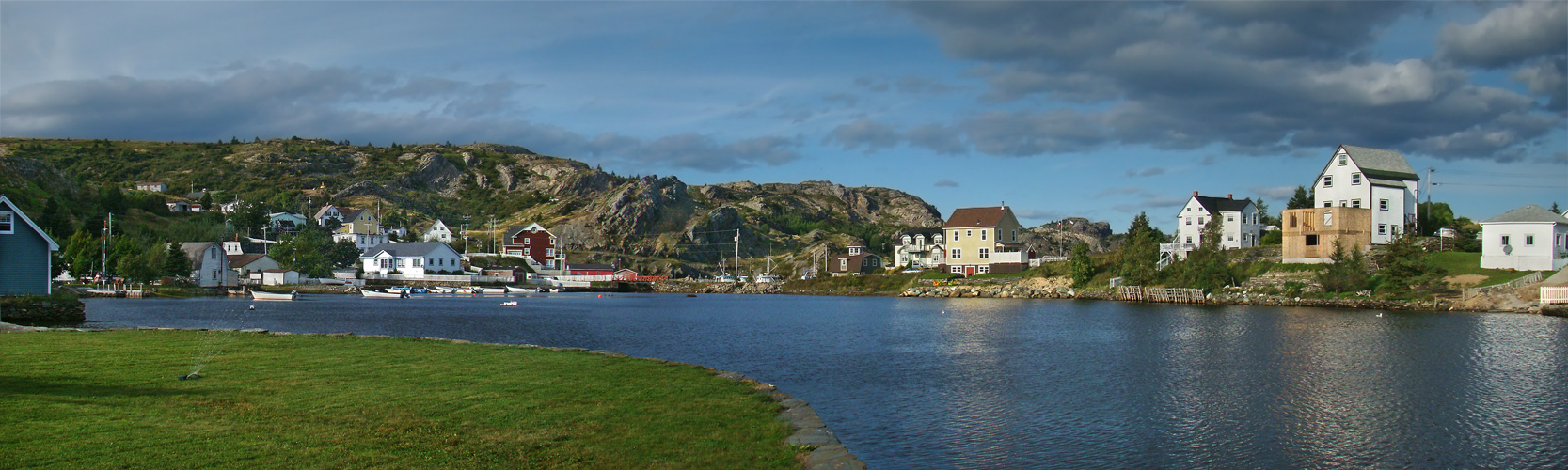 Brigus, Avalon Peninsula, Newfoundland, Canada. A landscaping service would be unnecessary in this town!